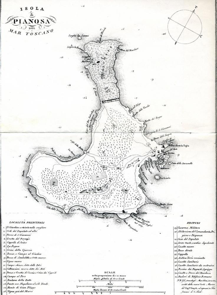 map of Isola di Pianosa, southwest of Elba, Thyrhennian Sea, Italy